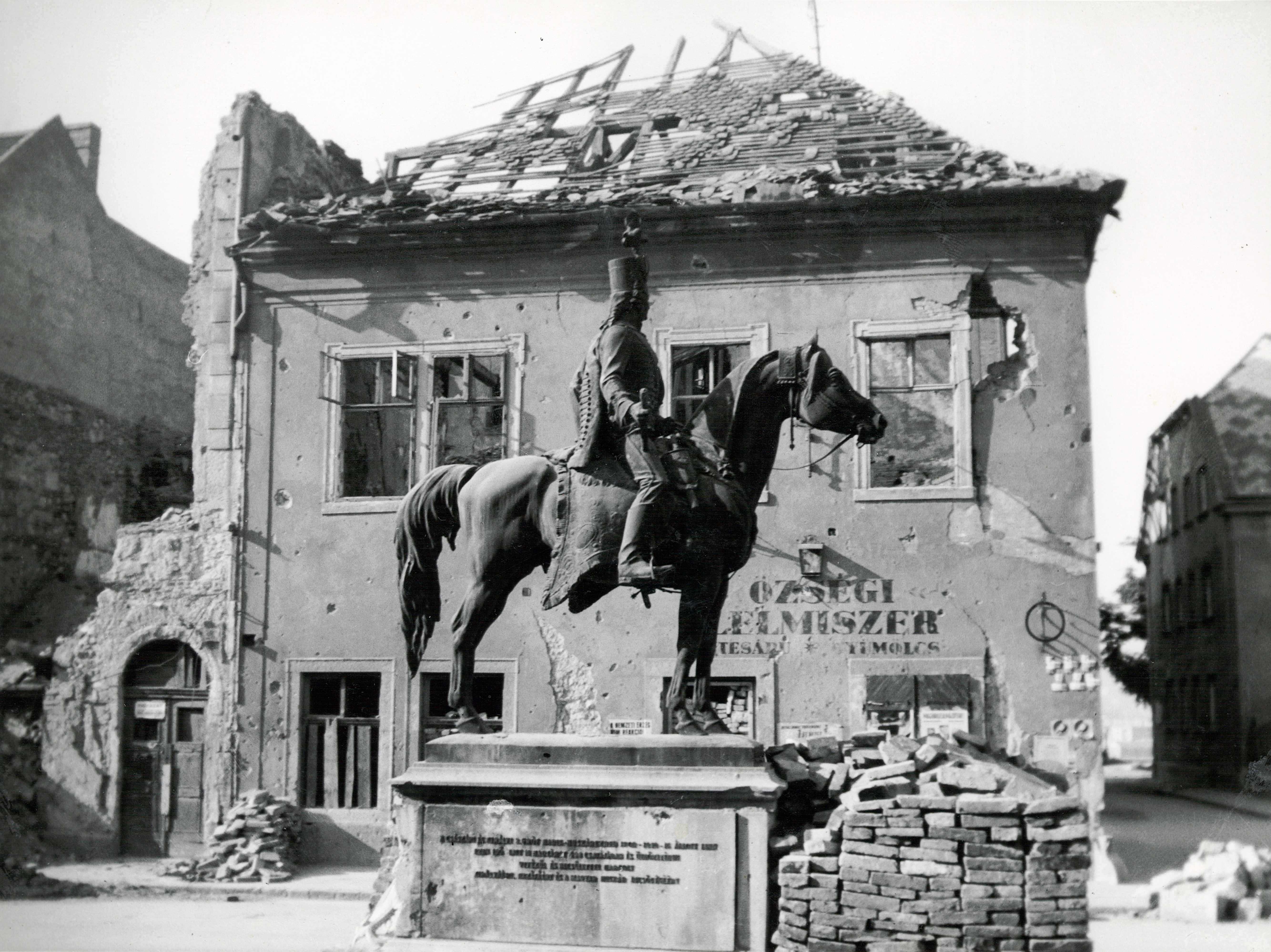 Tags: war damage, horse sculpture